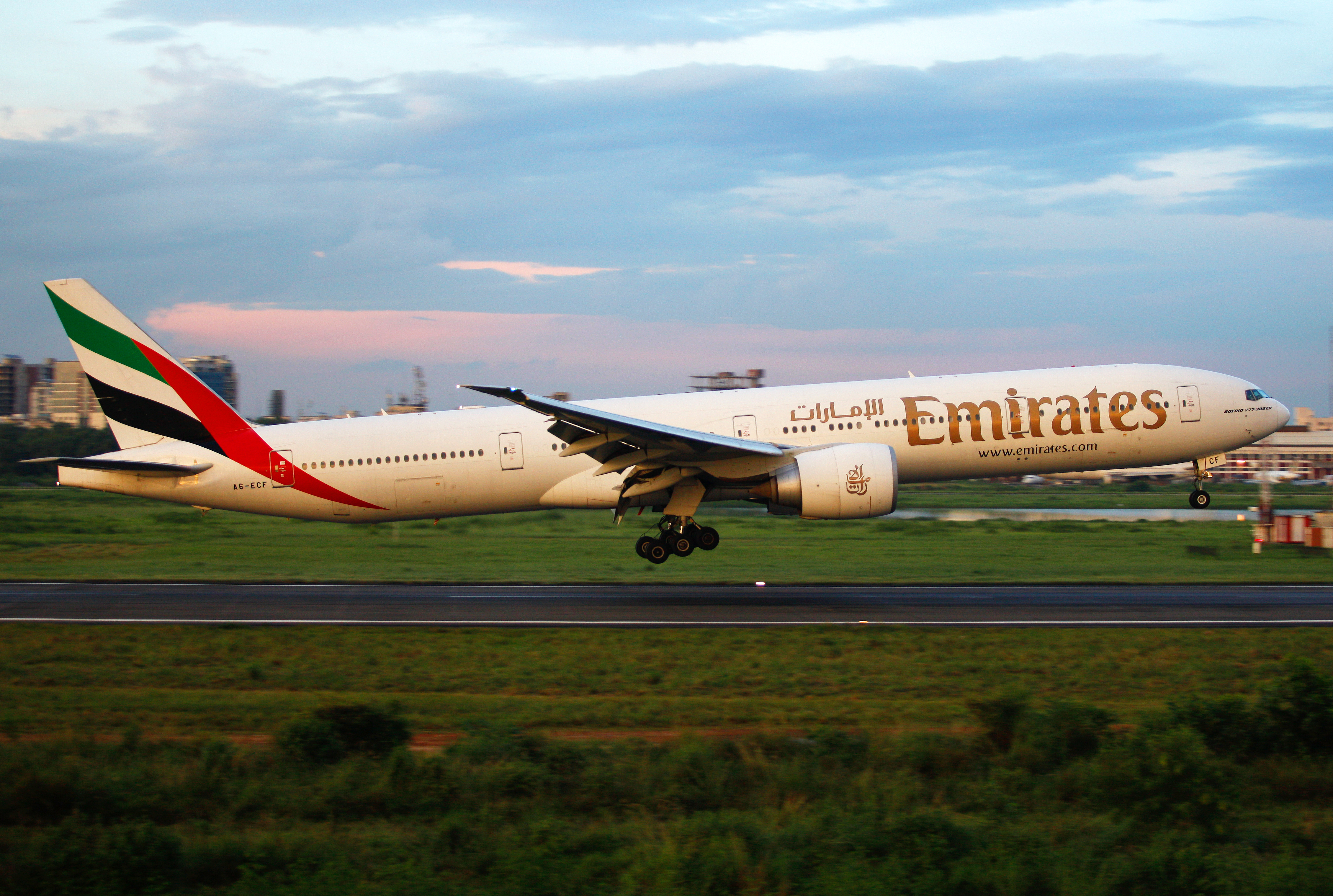 Emirates Boeing 777-31HER A6-ECF Landing at Hazrat Shahjalal International Airport Dhaka - DAC / VGHS